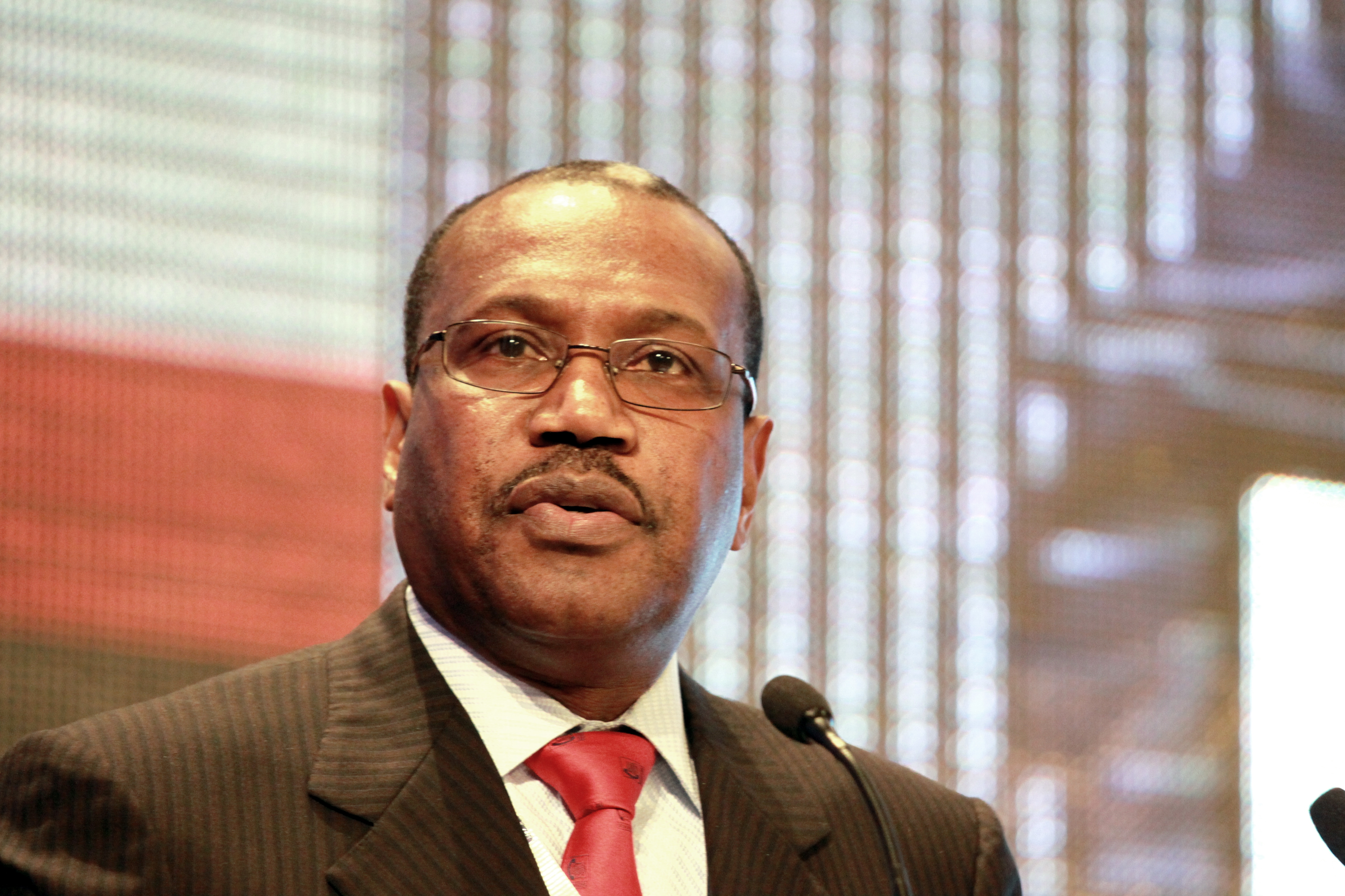 Dr. Hamadoun Touré, Secretary General of the International Telecommunication Union, is giving his keynote address at the IGF 2009 meeting in Sharm el-Sheikh, Egypt.